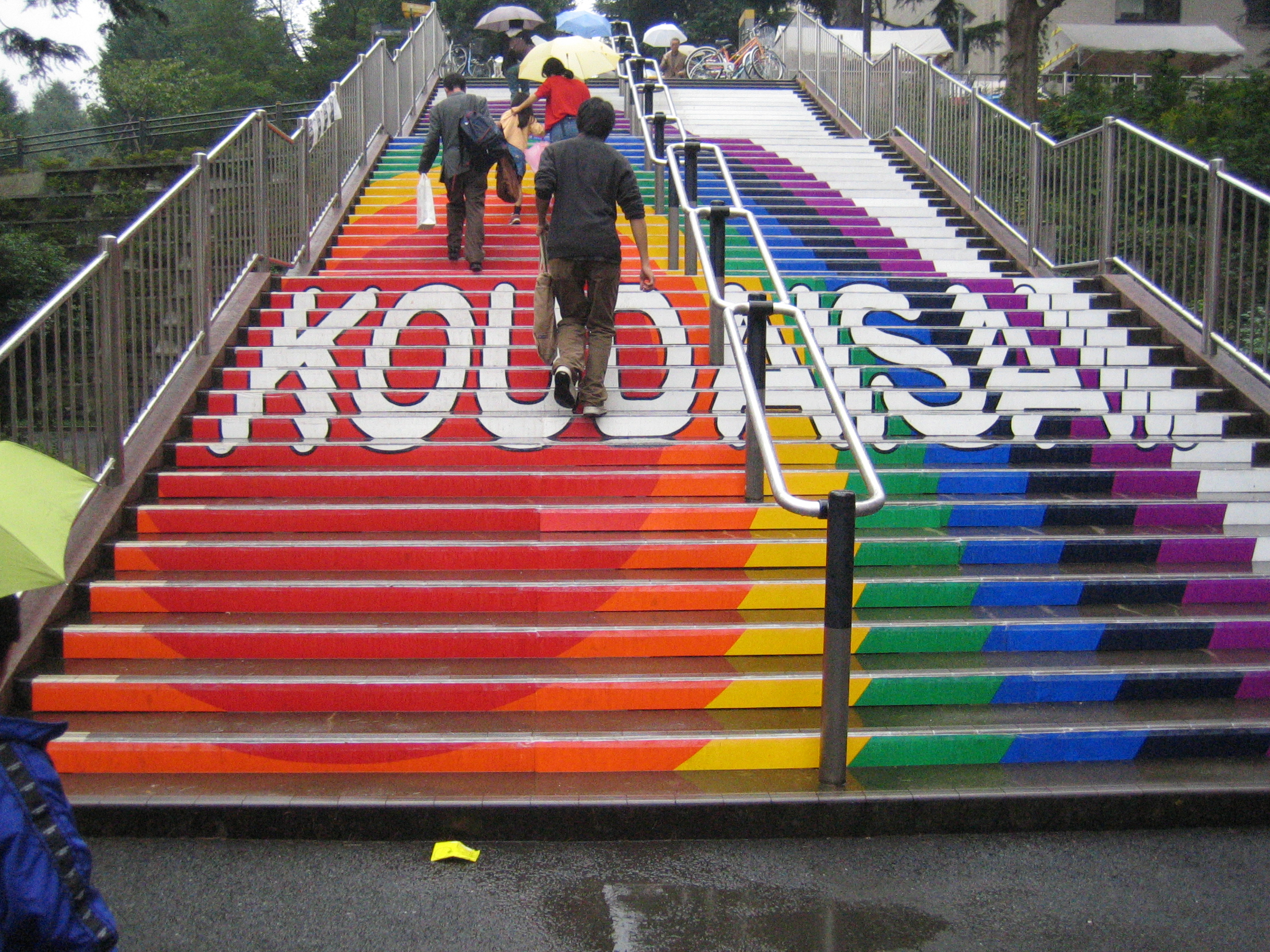 Cool and gay designs of the festivity